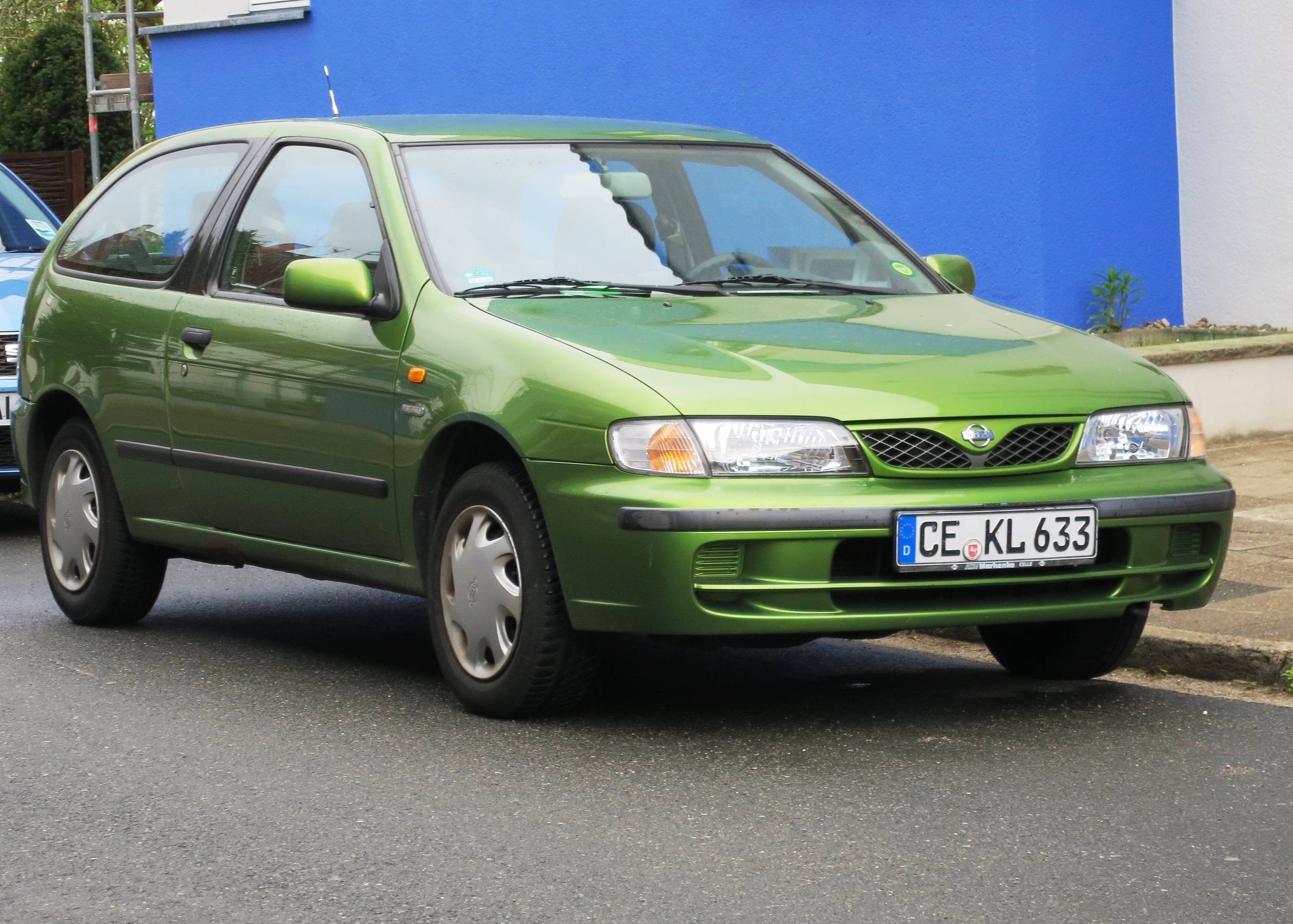 Nissan Almera N15 in Celle